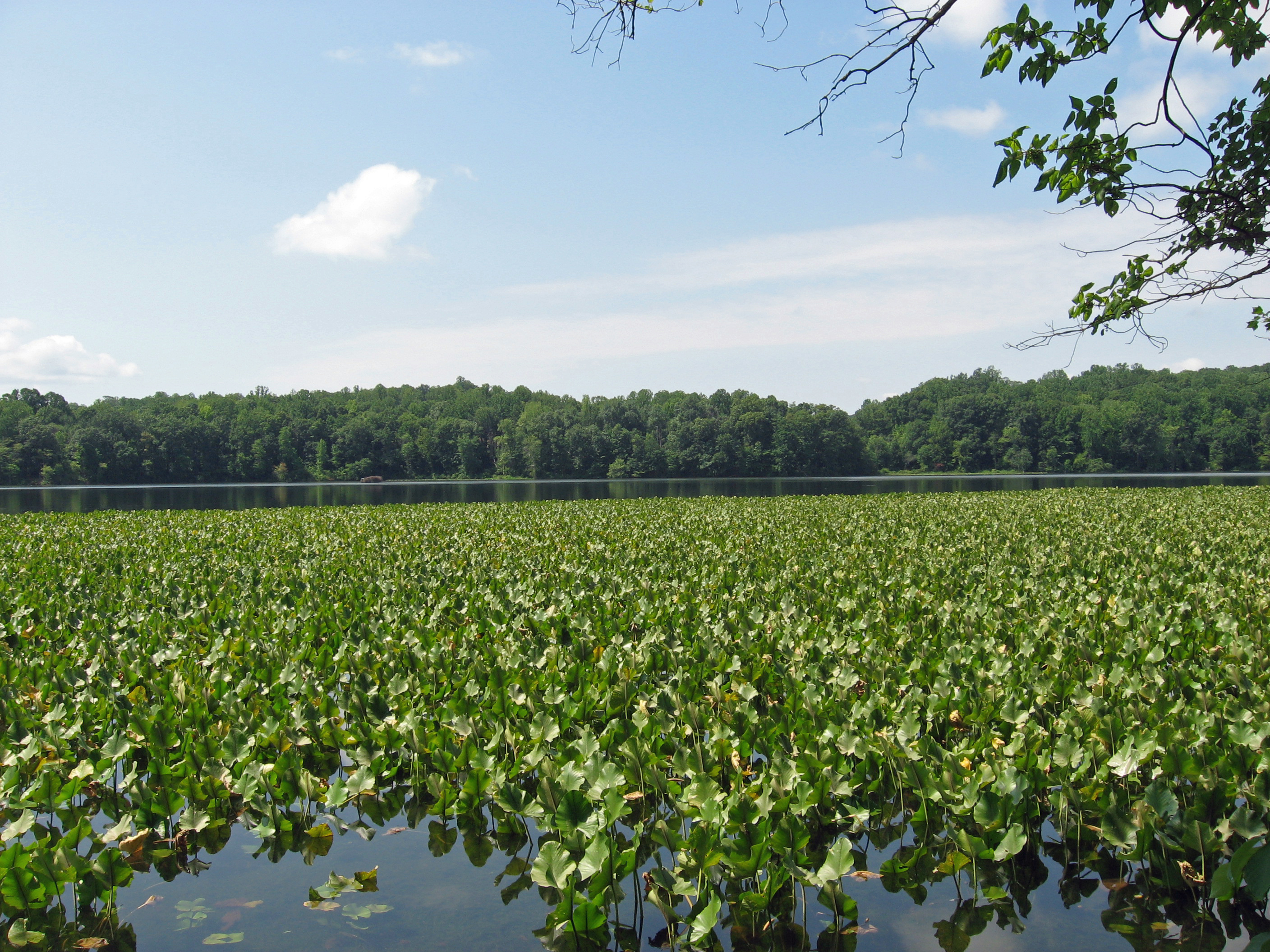 Powells Creek in Leesylvania State Park at its confluence with the Potomac River in Virginia